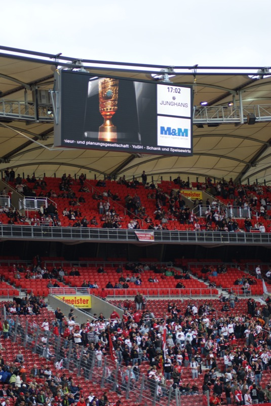 Untertürkheimer grandstand in the Mercedes-Benz Arena at the first match after its completion 2010